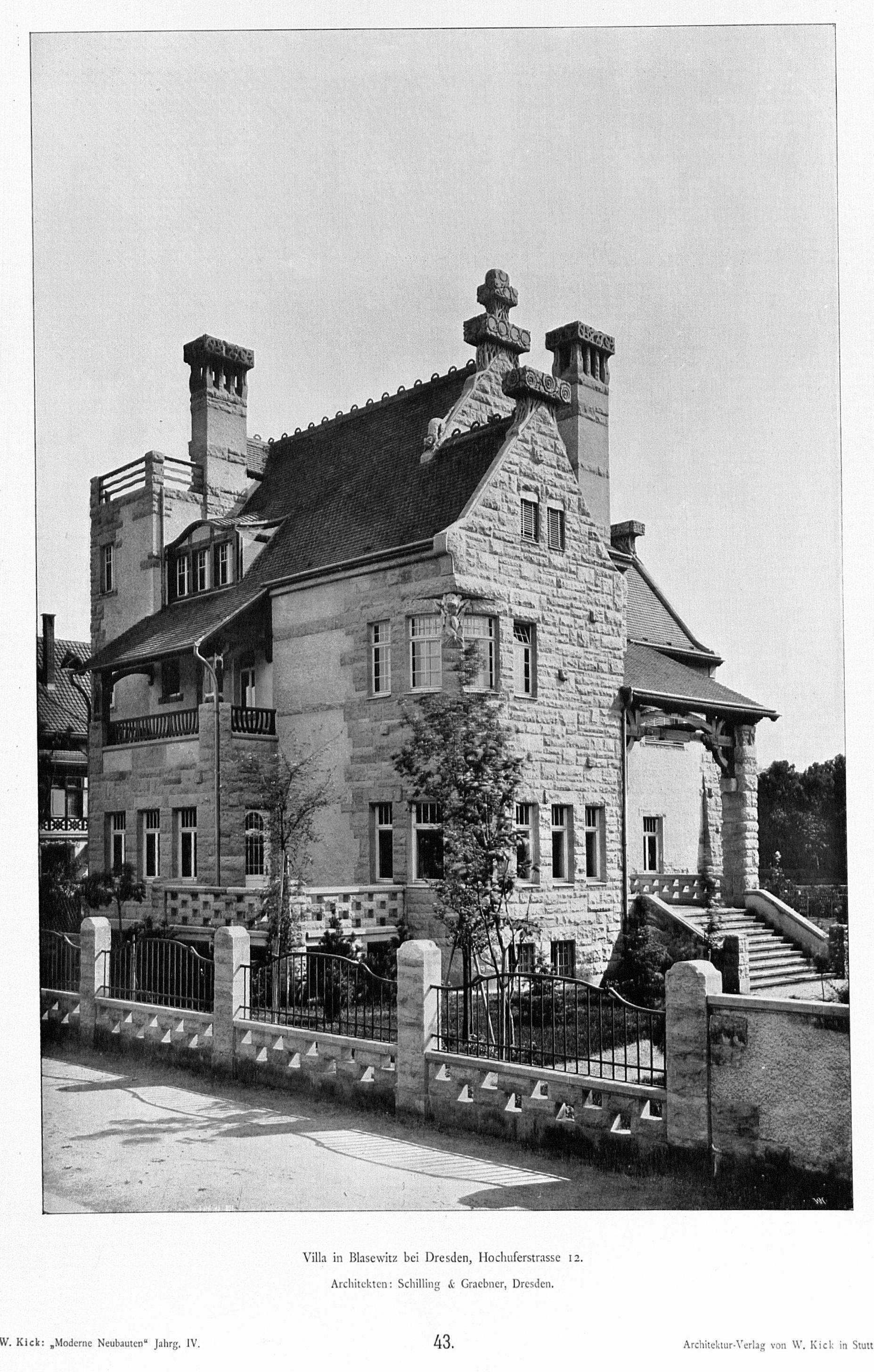 Villa_in_Blasewitz_Dresden,_Hochuferstr._12_Architekten_Schilling_&_Graebner_Dresden.jpg